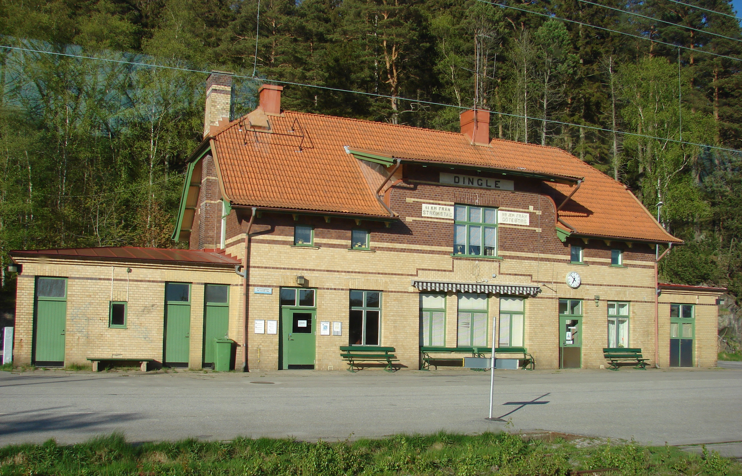 Dingle station, Munkedals kommun (municipality)